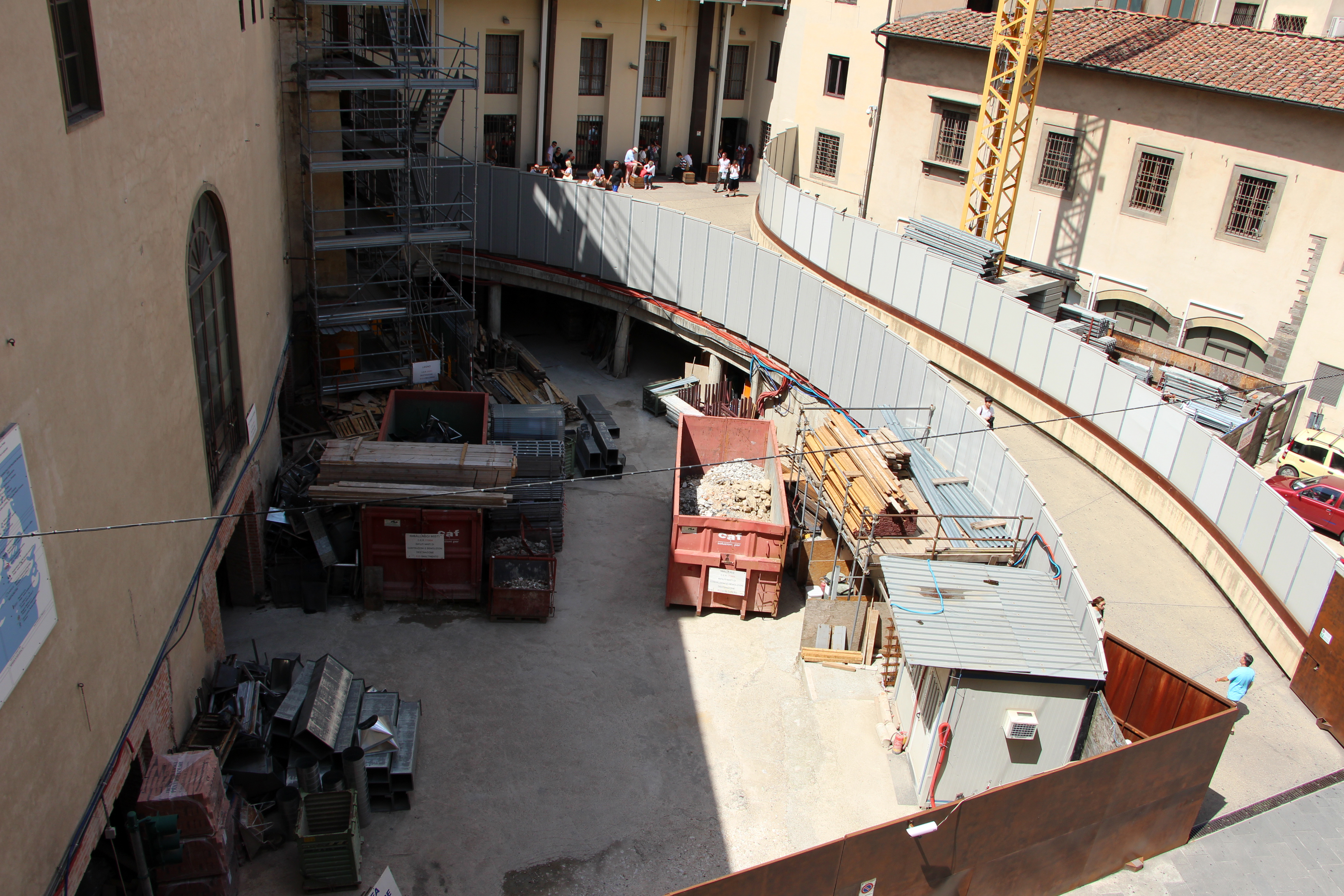 Excavations beneath the exit area of the Uffizi. A proposed redesign of the area has been postponed since about 2003.